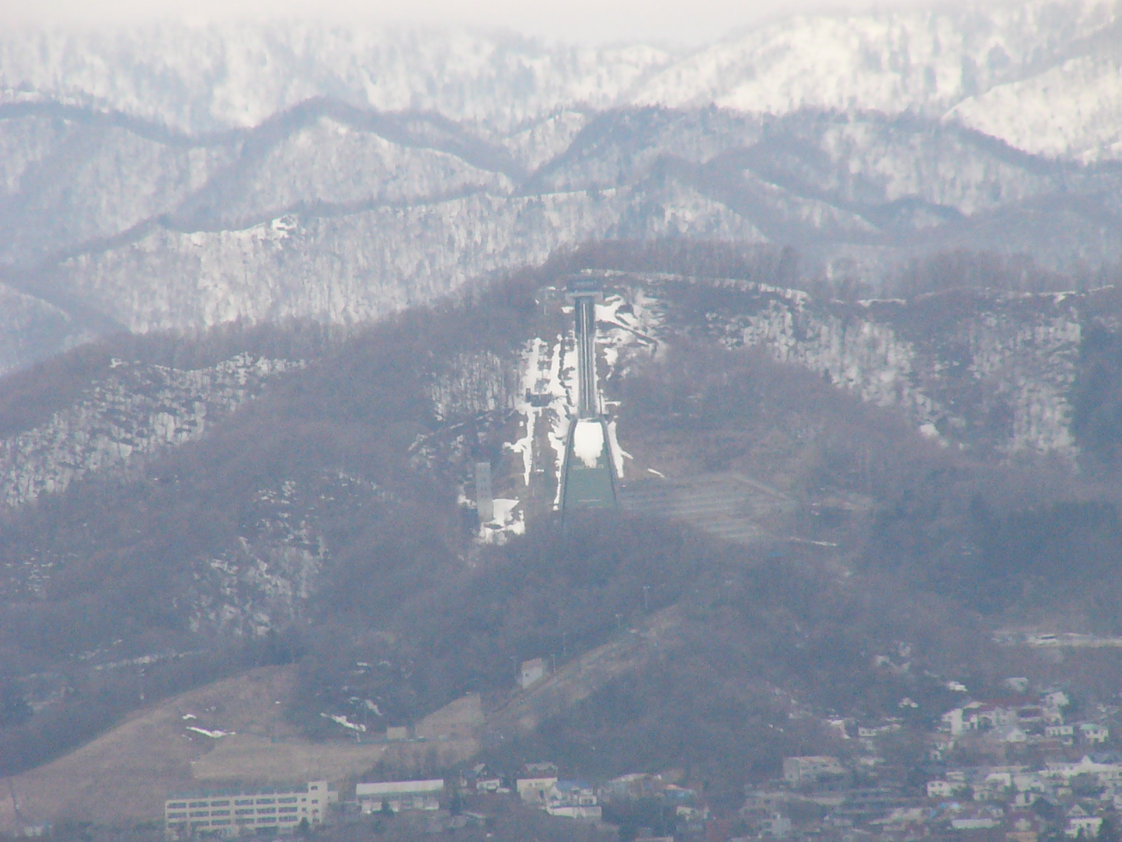 Ōkurayama-Schanze. (大倉山シャンツェ Ōkurayama-shantse), Chuo-ku (Sapporo).